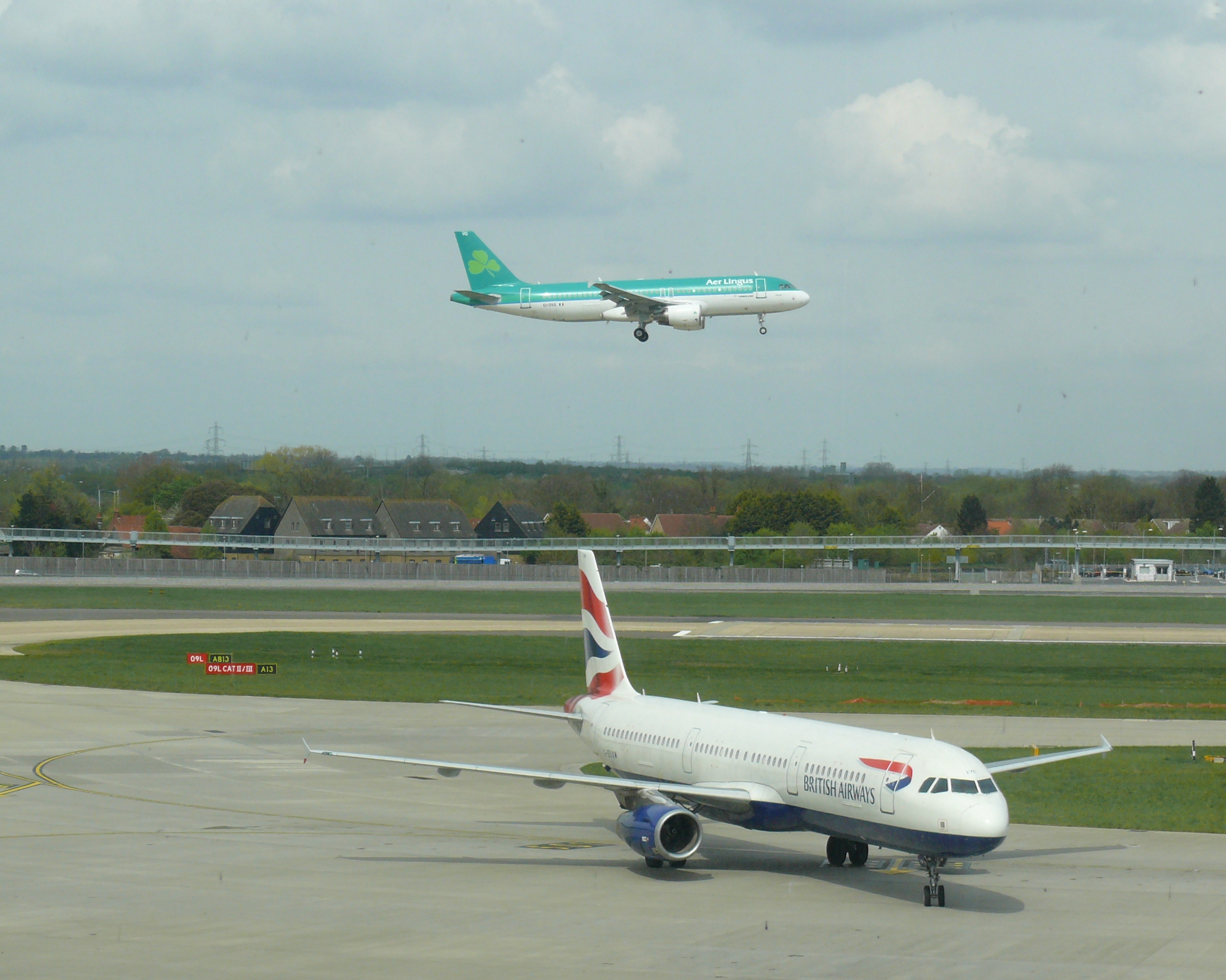 British Airways Airbus A321-231 G-EUXM (cn 3290) with a landing Aer Lingus A320-214 EI-CVC (cn 1443) at London Heathrow Airport.